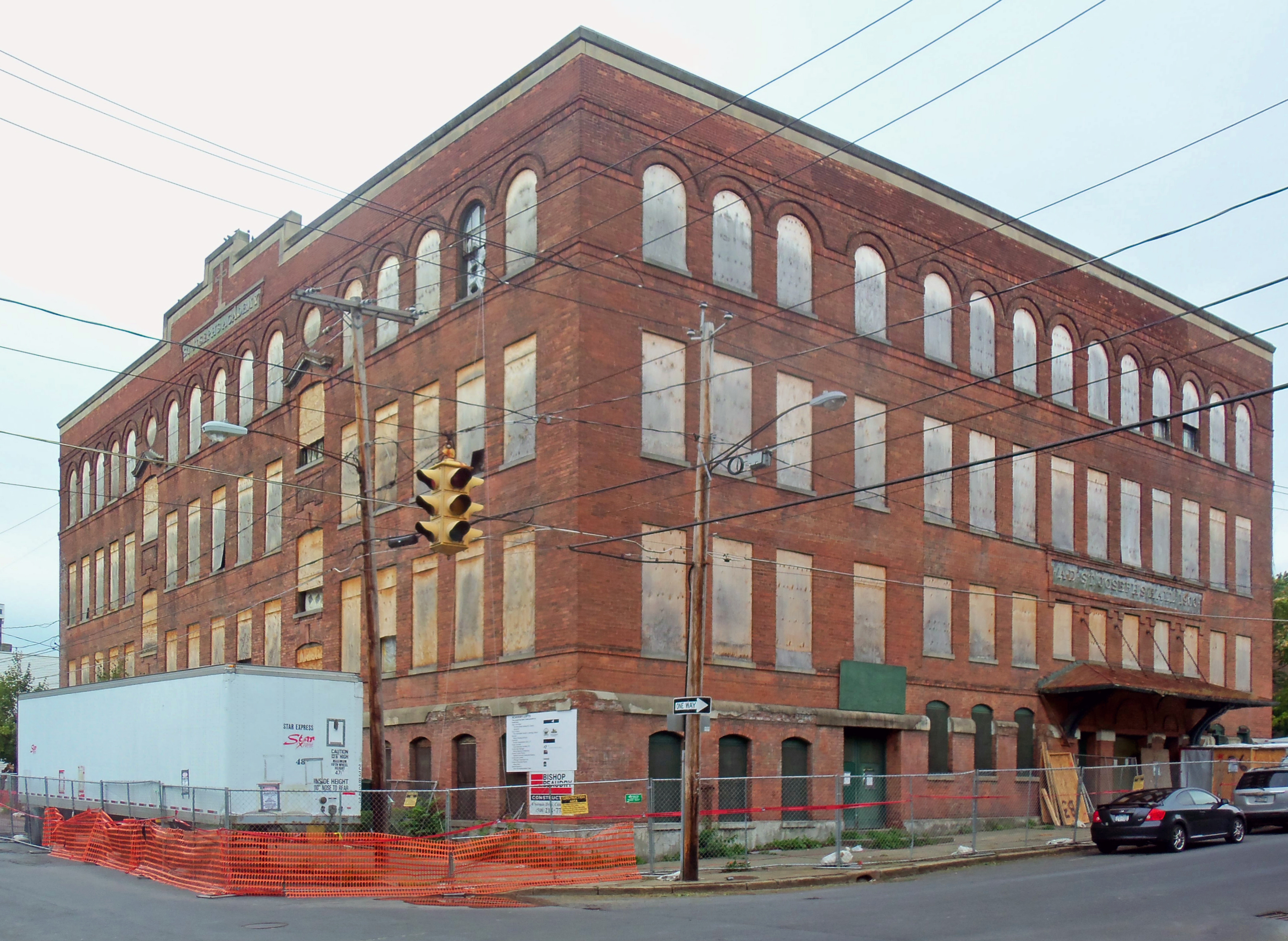 Former St. Joseph's school building, a contributing property to the Arbor Hill Historic District in Albany, NY, USA